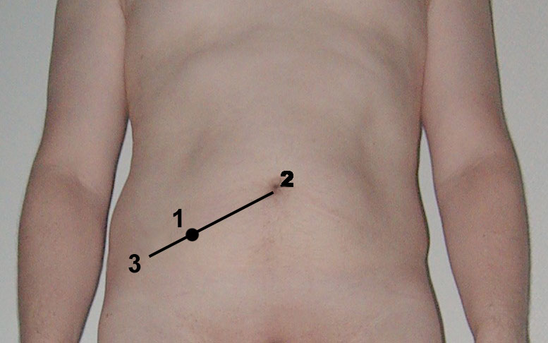 Location of McBurney's point illustrated on the abdomen of a male subject.